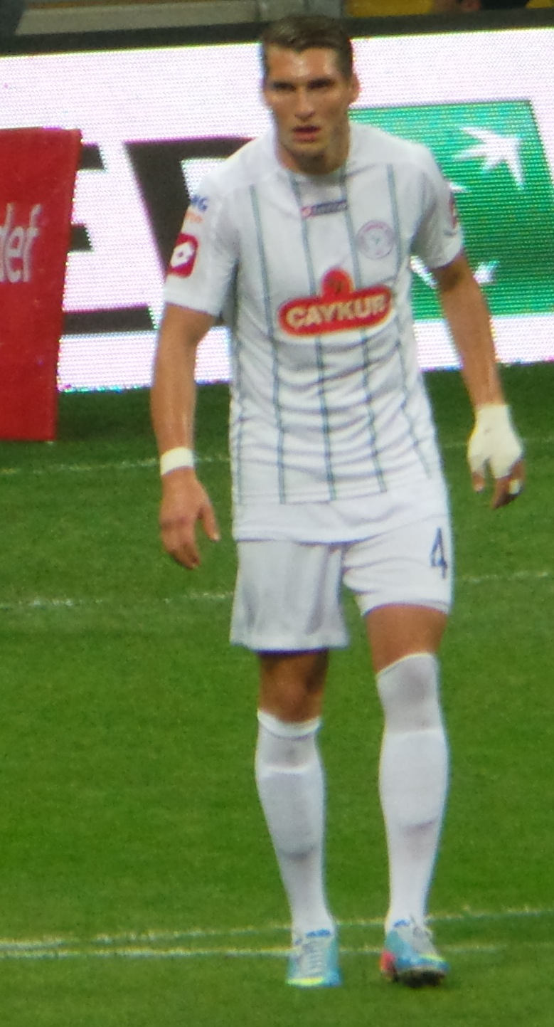 Koray Altınay wit hrizespor